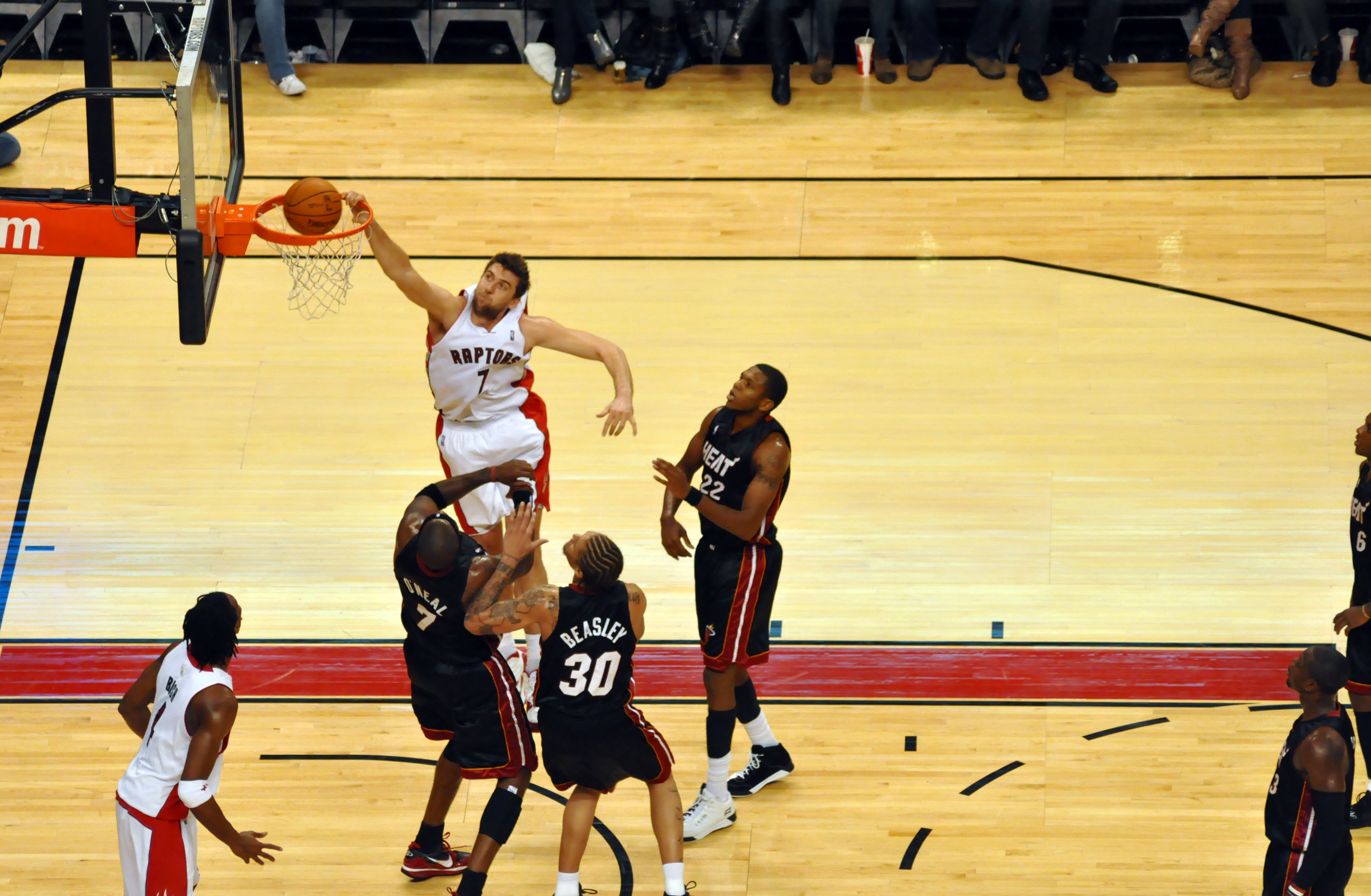 Andrea Bargnani dunk Toronto Raptors Miami Heat